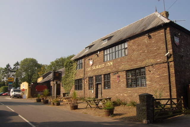 The Skirrid Inn, Llanvihangel Crucorney